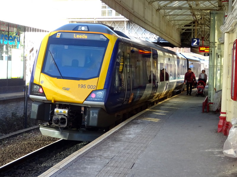 Halifax Railway Station